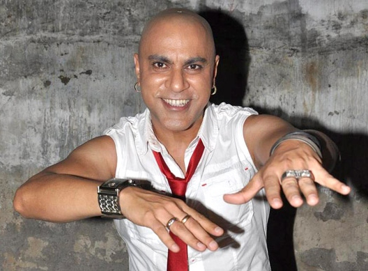 Baba Sehgal shoots for his album 'Mumbai City'